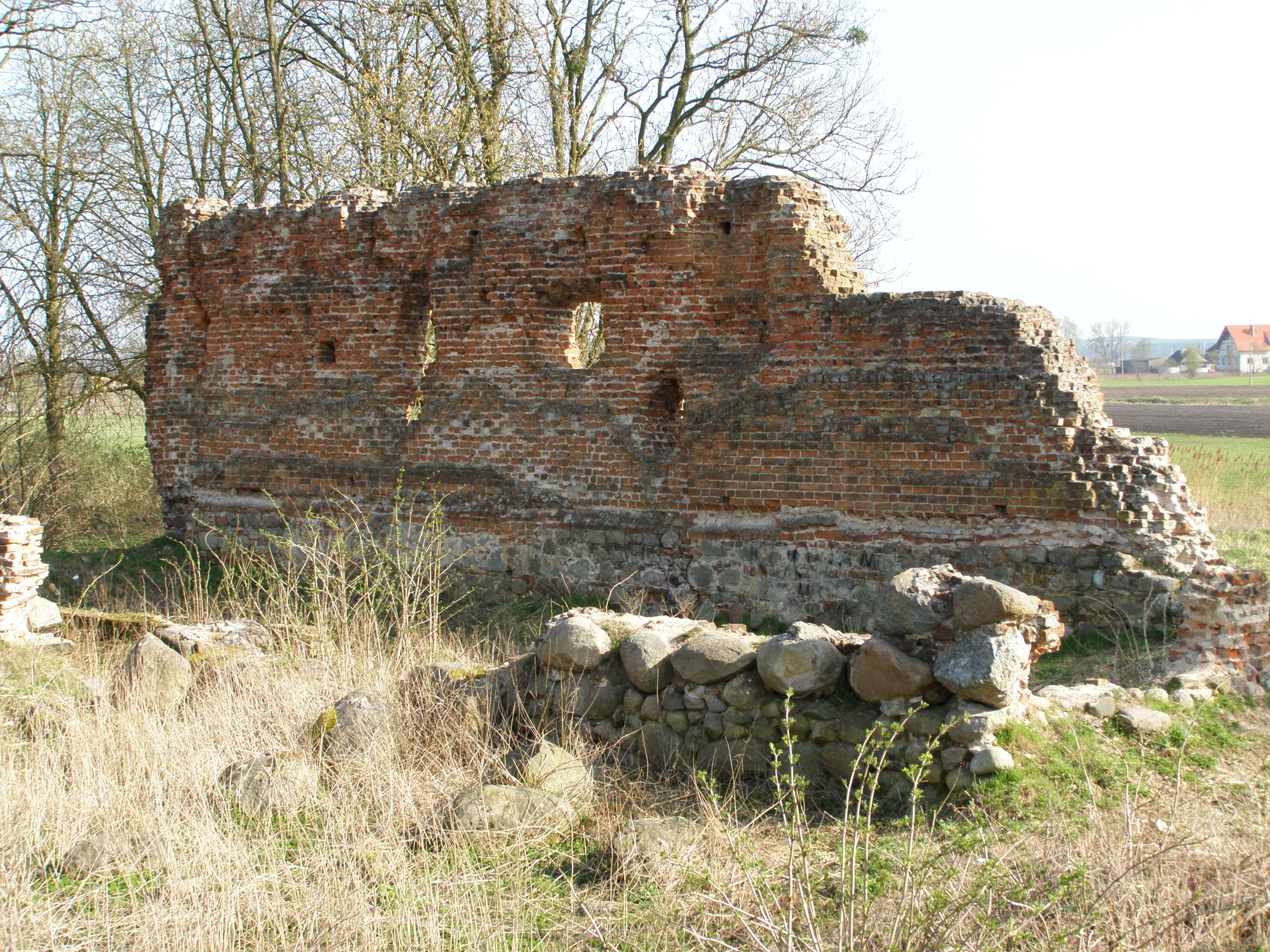 Ruins of the castle in Szubin